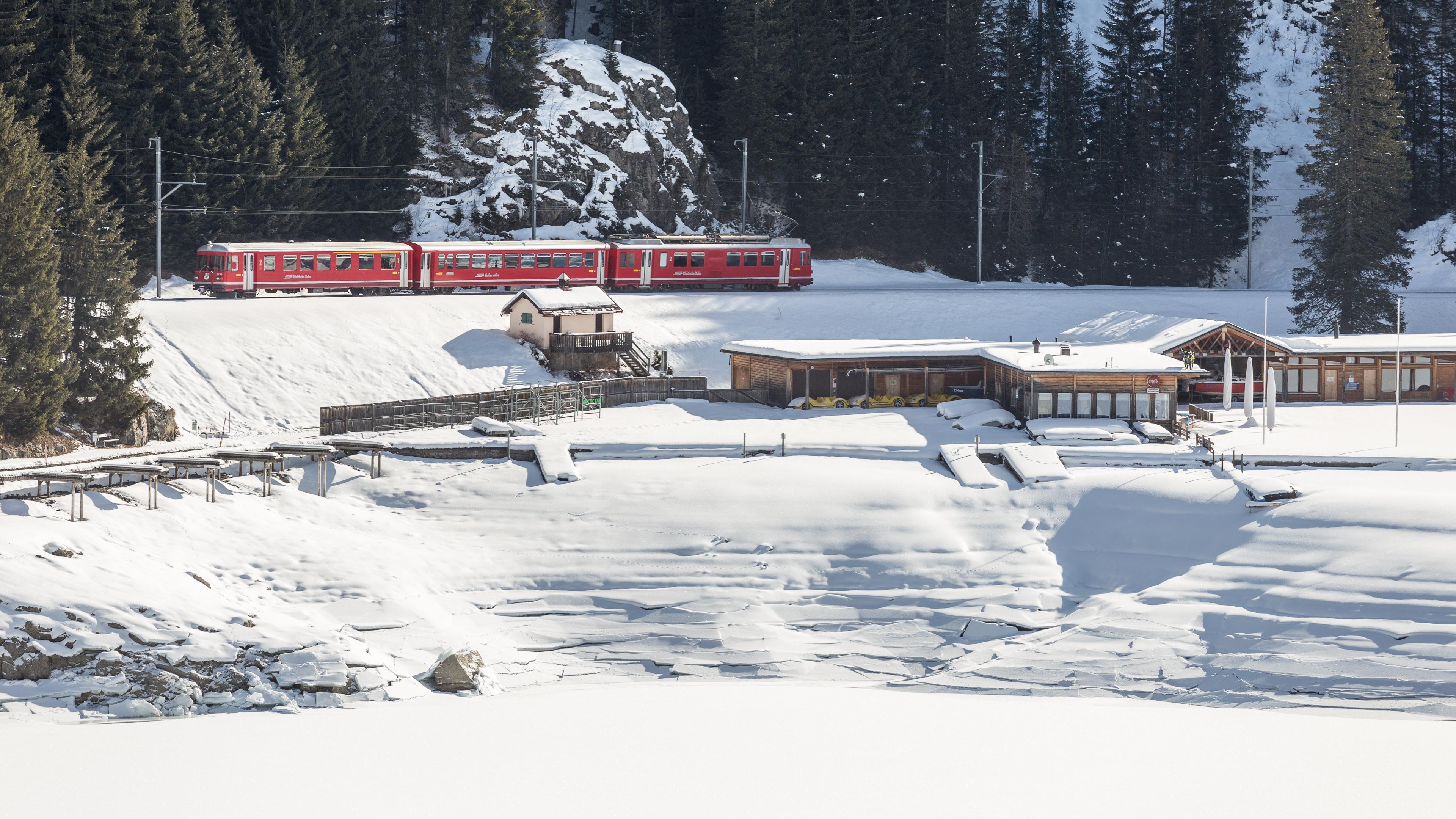 Nearly empty Lake Davos in Winter